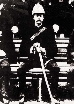 Walter Meredith Deane (1840—1906)